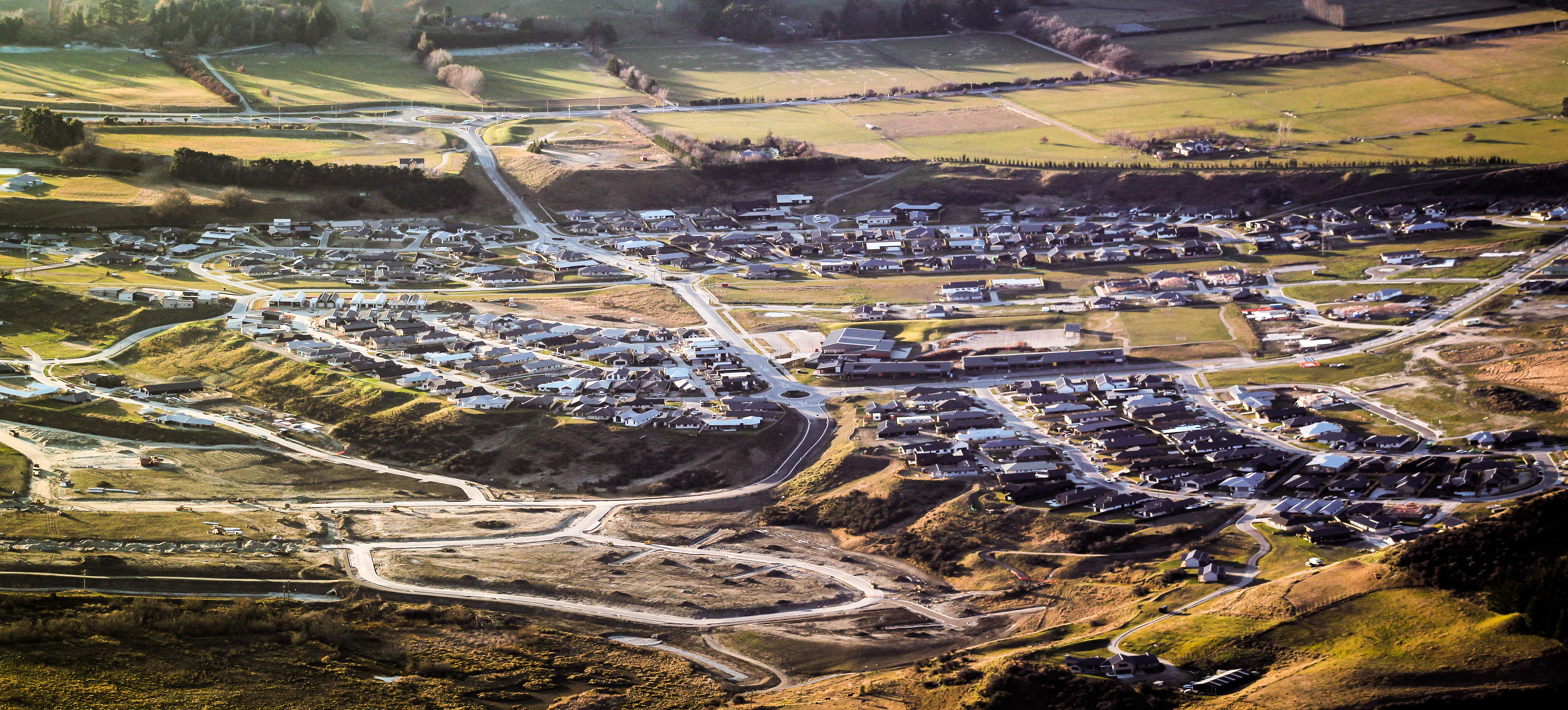 As viewed from The Remarkables, a suburb of Queenstown New Zealand